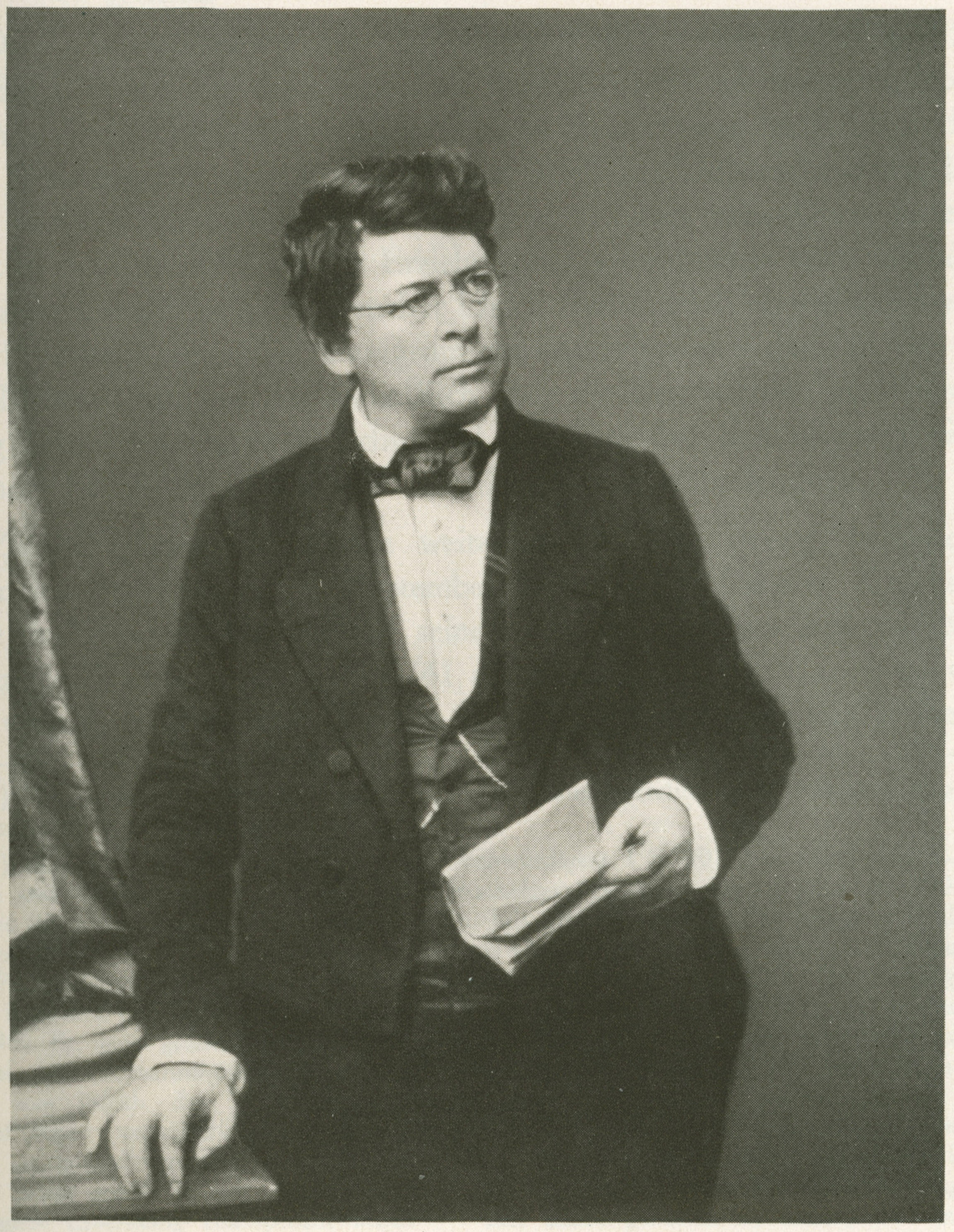 Portrait of Carl Pfeufer (1806–1896)